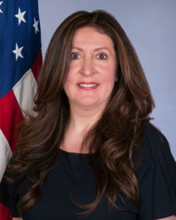 Herro Mustafa official State Department photo